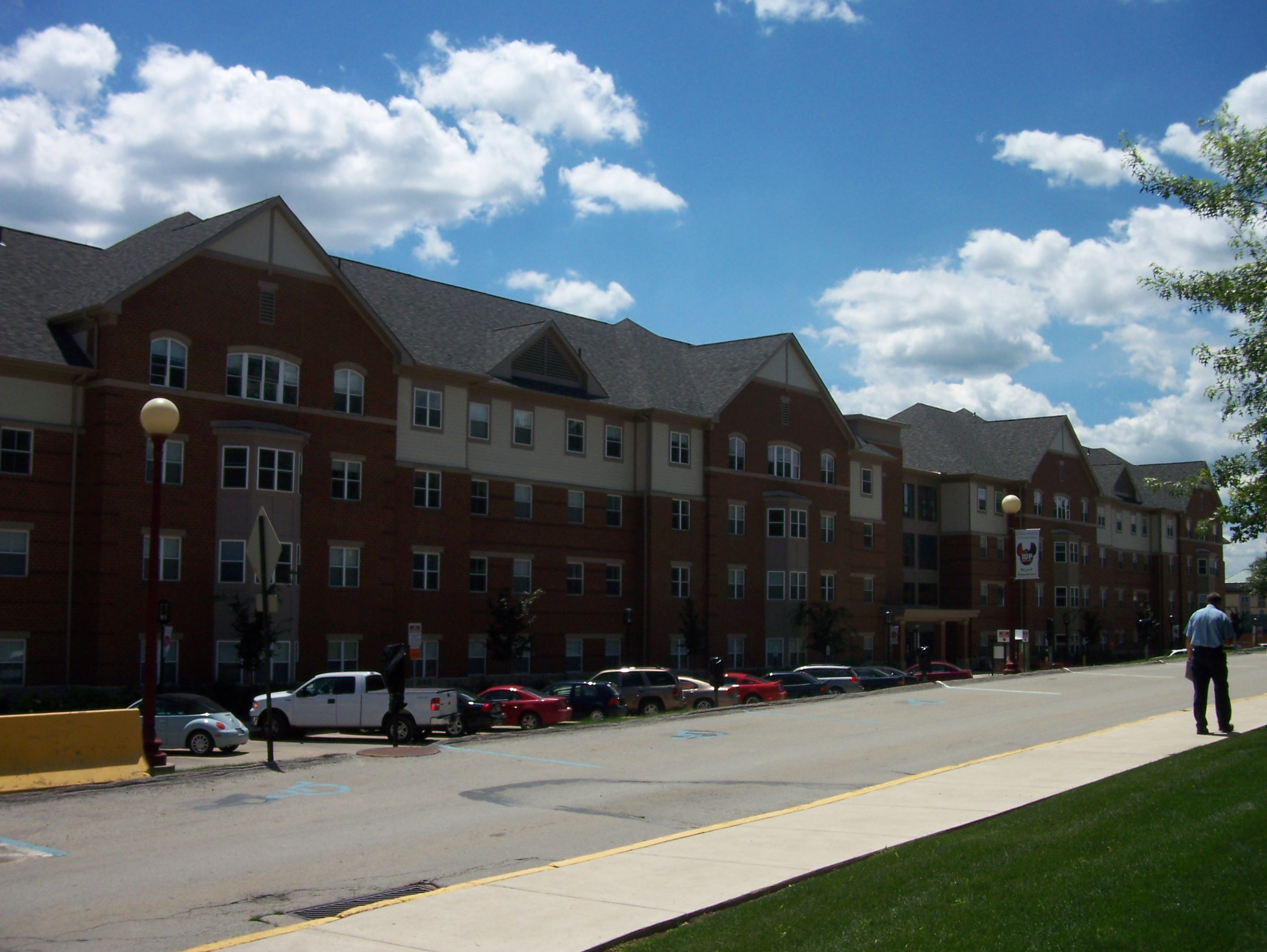 Grant Suites on Grant Street at Indiana University of Pennsylvania (IUP)